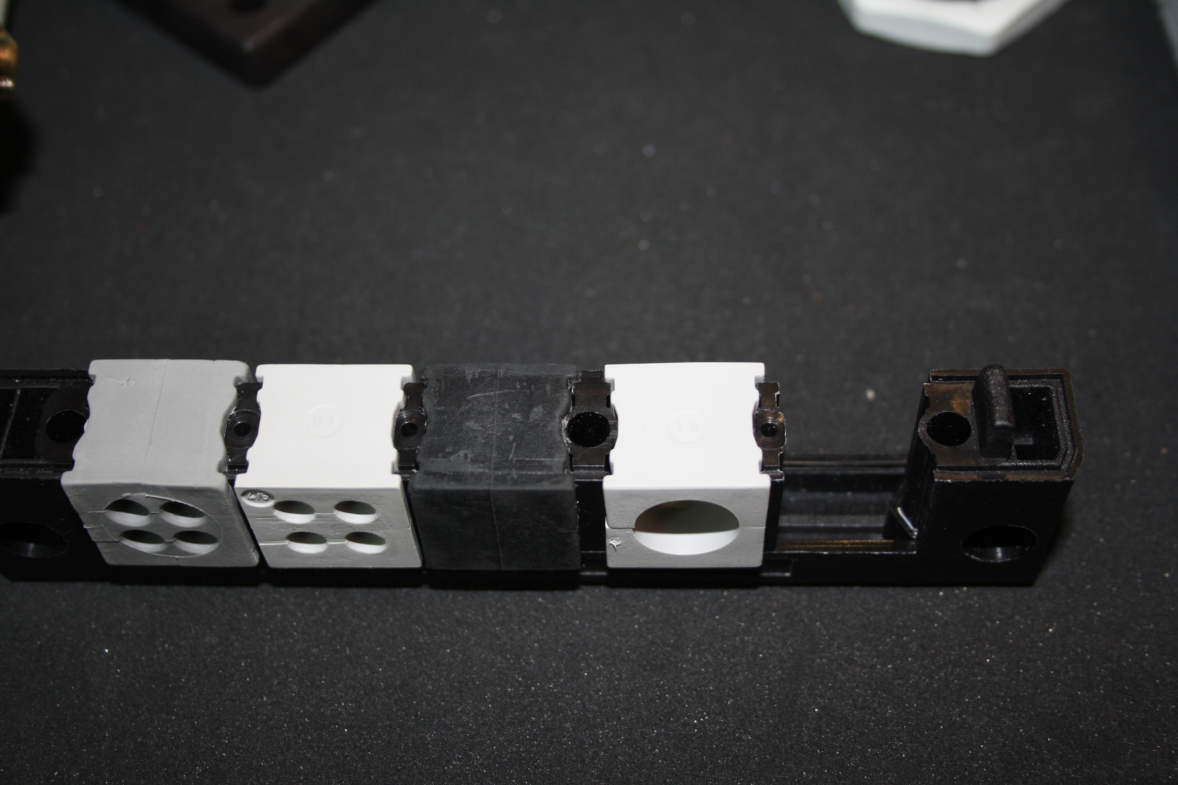 Cable entry systems for assembled cables - example